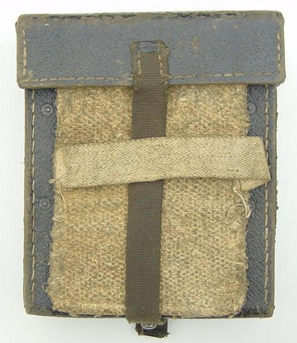 MG42 gunner's pouch made of Prestoff